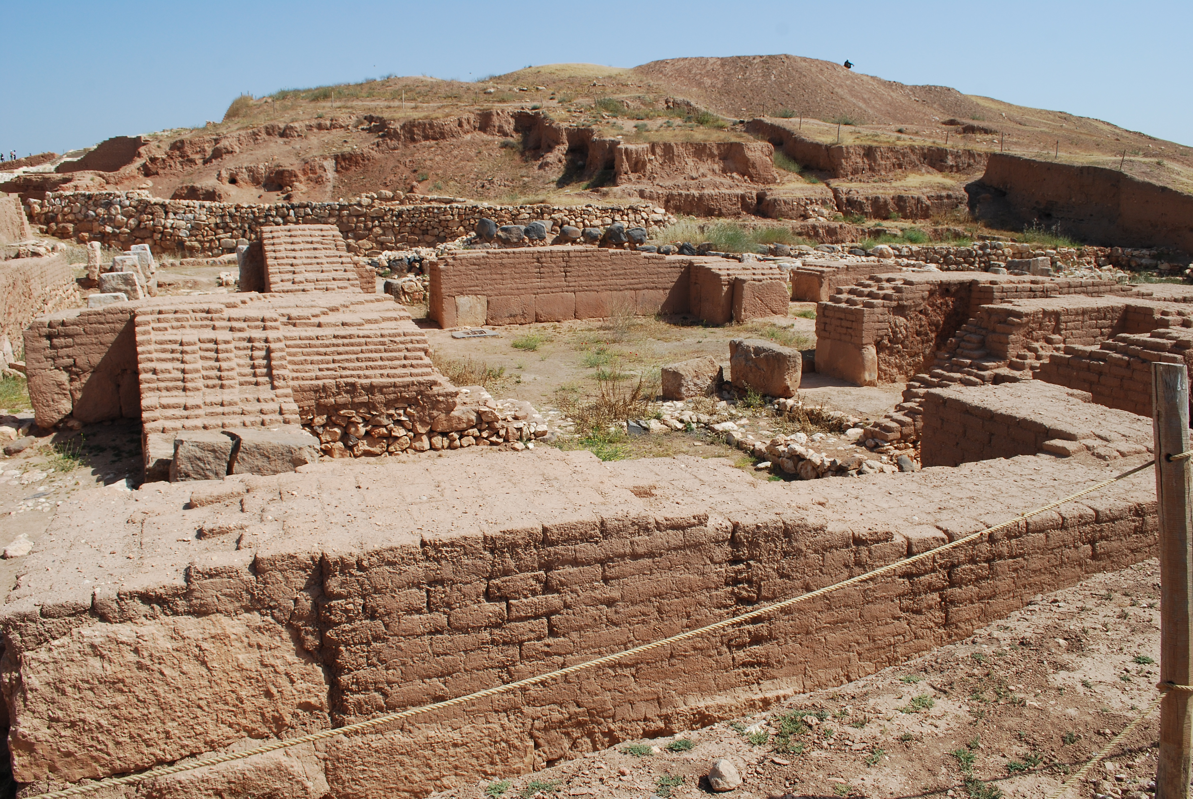 Southern palace, Ebla in 2004